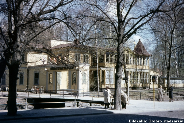 The restaurant Strömparterren, Örebro, Sweden